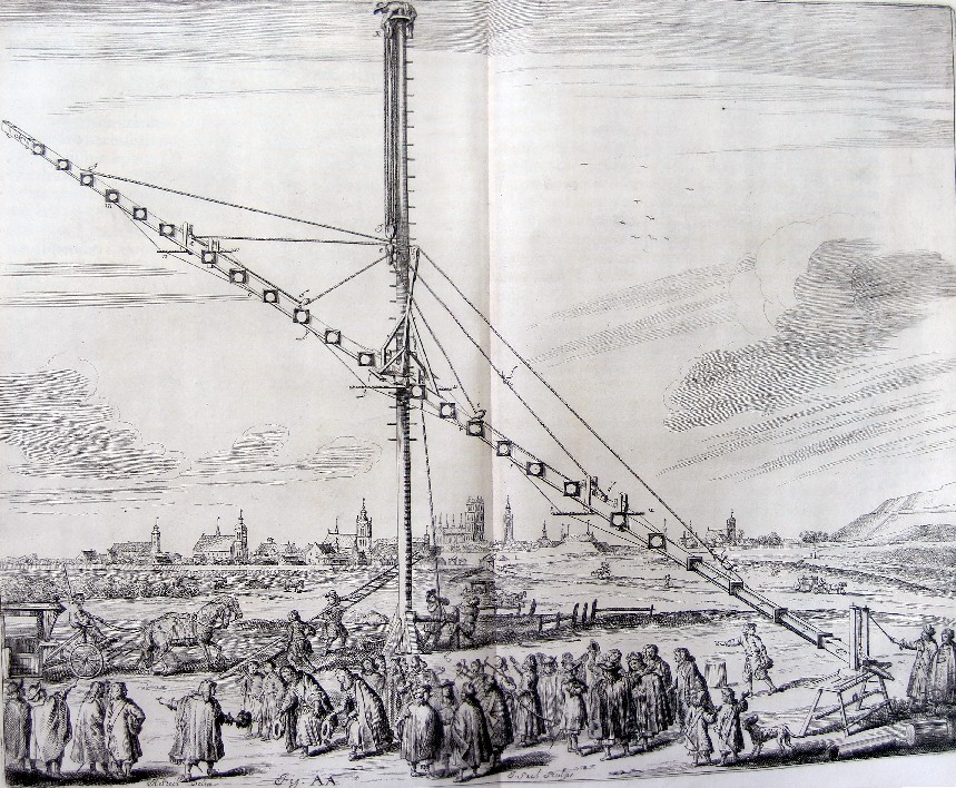 Drawing of the 150-foot telescope of Hevelius